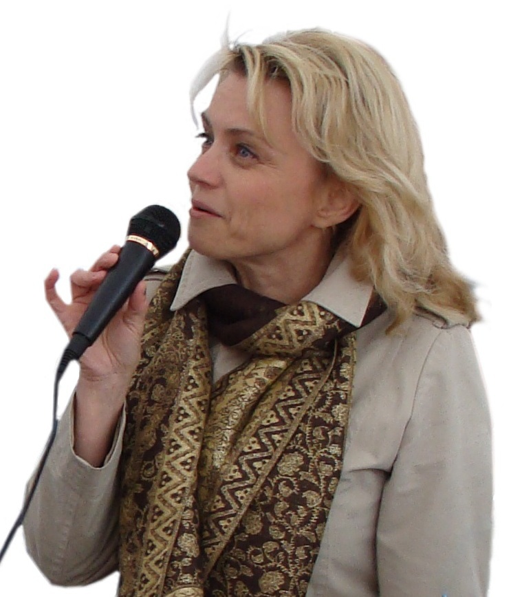 Finnish politician of the Christian Democrats Päivi Räsänen in Espoo